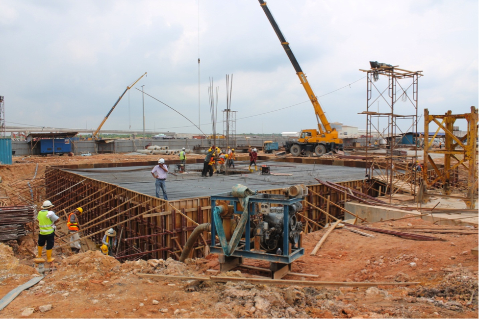 Constructing Raft Pile Cap